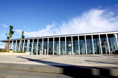 THSR Taoyuan Station